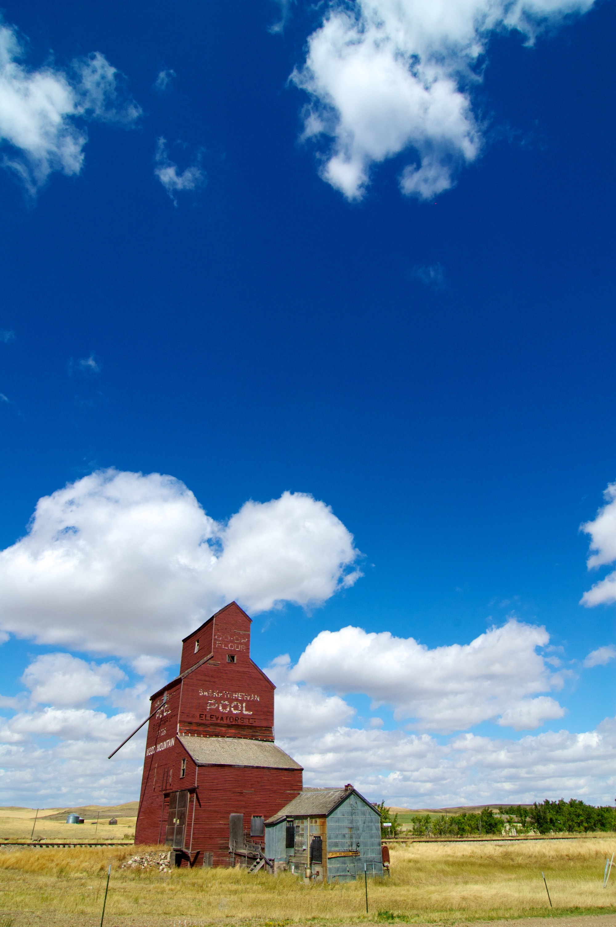 From a drive along and south of Highway 13 to SW Saskatchewan. 2007.